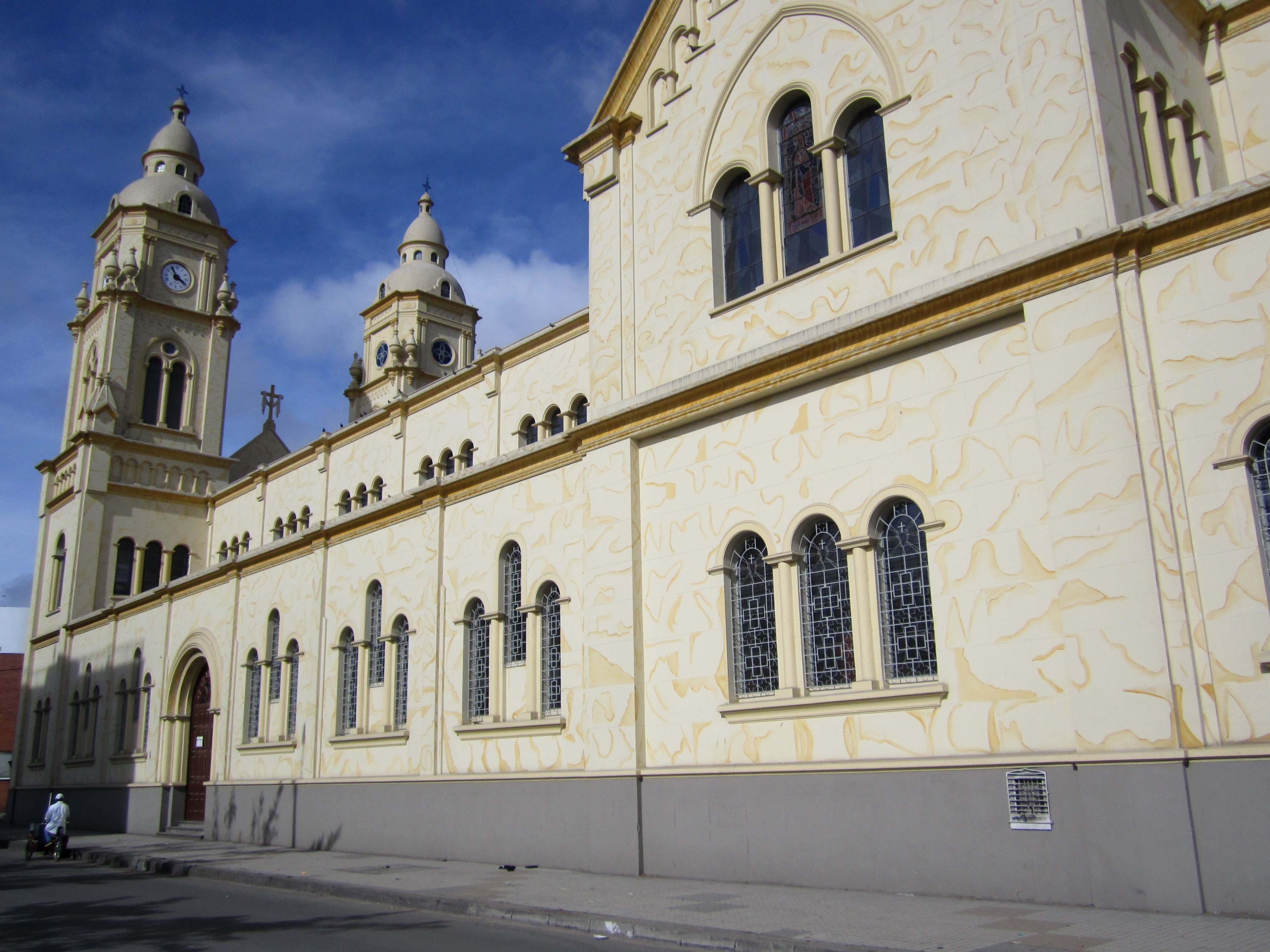 Bogotá